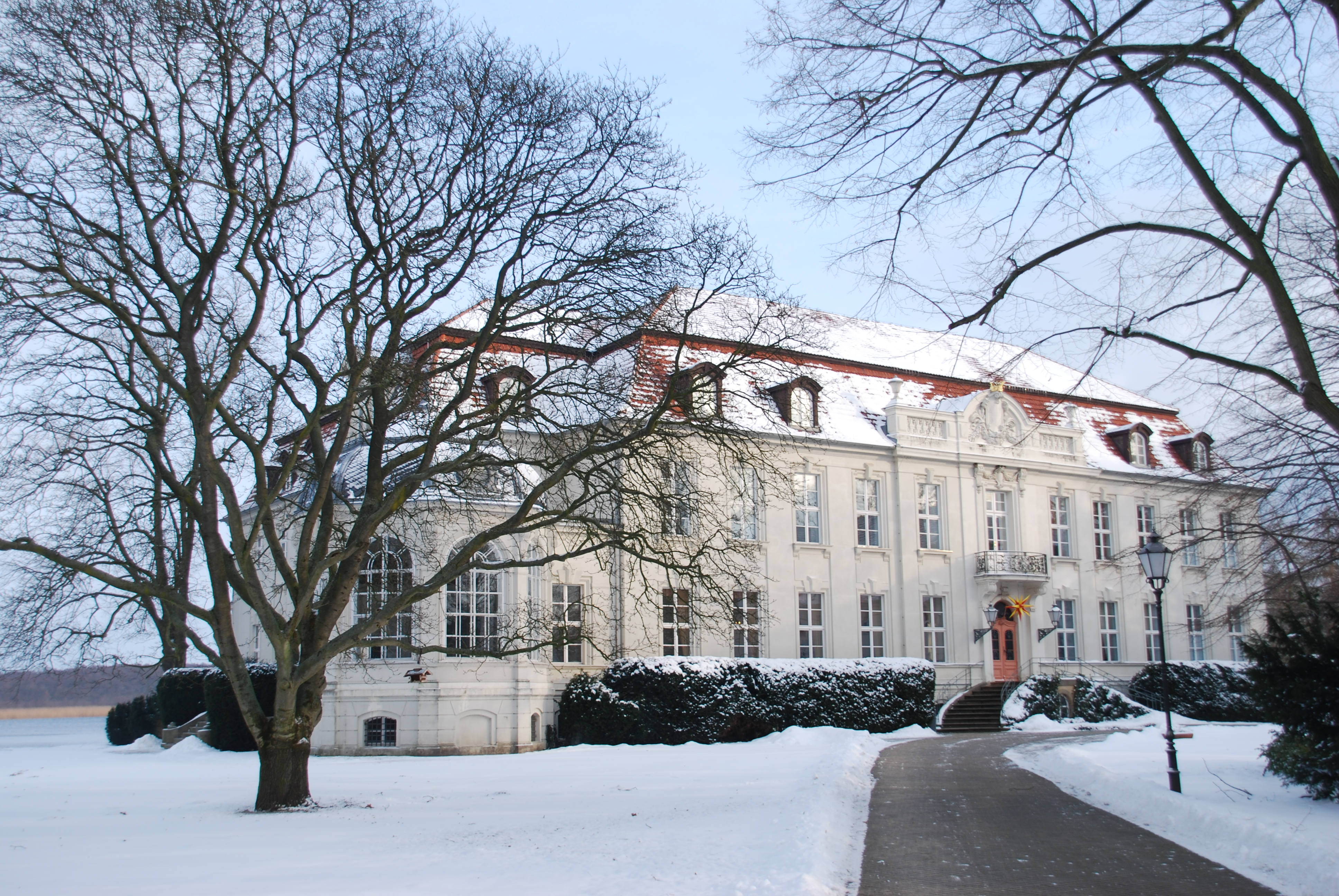 Deutsche Richterakademie Wustrau, Brandenburg, Germany